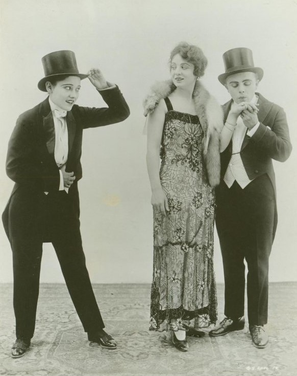 Helen Bray makes eyes at Gloria Swanson (disguised as a man) while Bobby Vernon kisses her hand.